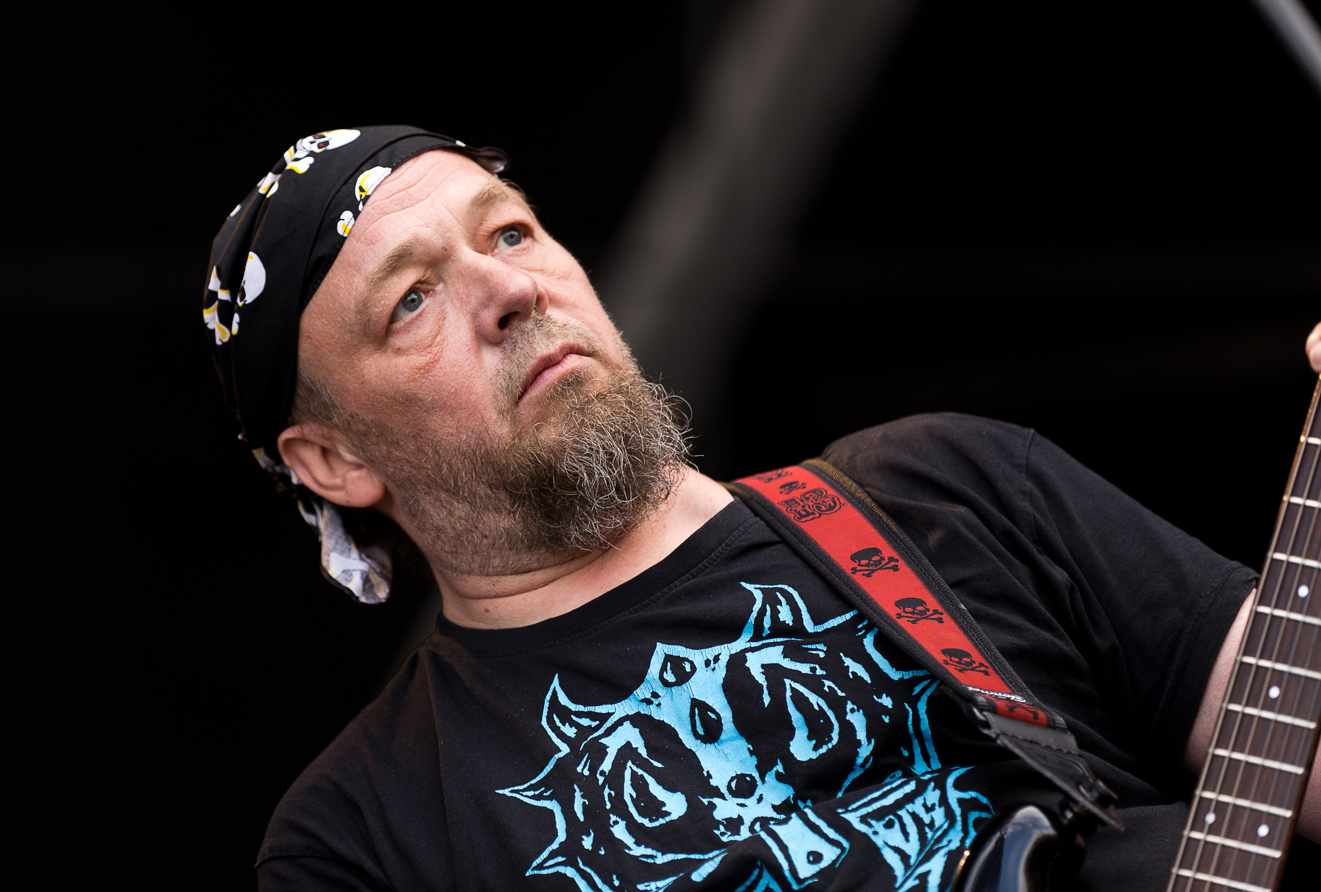 The Danish thrash metal band Artillery at the Rockharz Open Air 2015 in Ballenstedt/Germany.